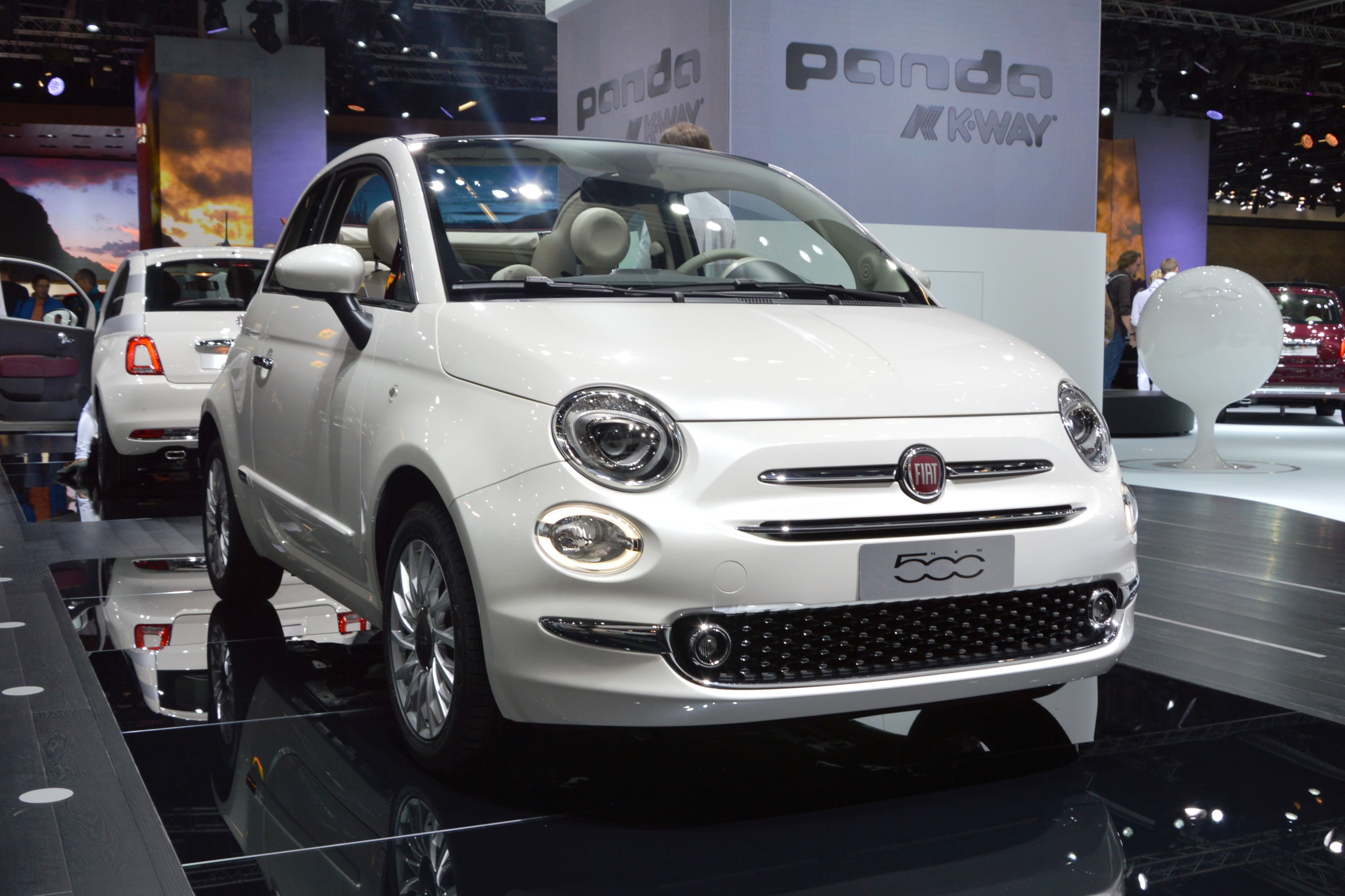 Fiat 500 C Lounge 1.3. Photo taken at exhibition IAA 2015 in Frankfurt, Germany.